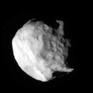 Raw Narrow Angle Camera image of Helene. Taken by Cassini-Huygens on July 20, 2007 from 40,211 km with clear filters. Adapted from source image (cropped and contrast adjusted).